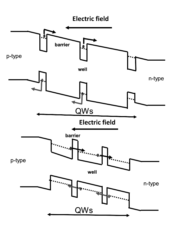 Top: Thermionic Escape of charge carriers in quantum wells. Bottom: Tunneling of Charge Carriers in quantum wells. Both situations in multi-junction quantum well cells.